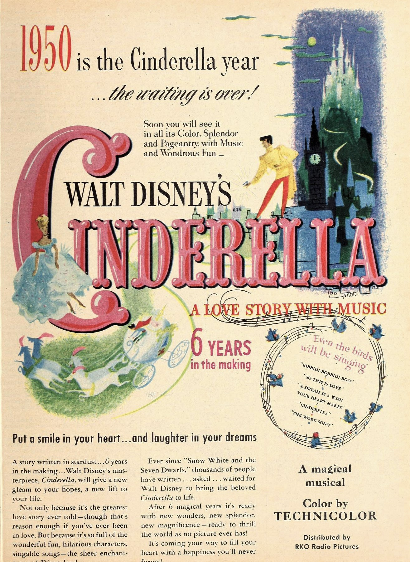 1950 is the Cinderella year